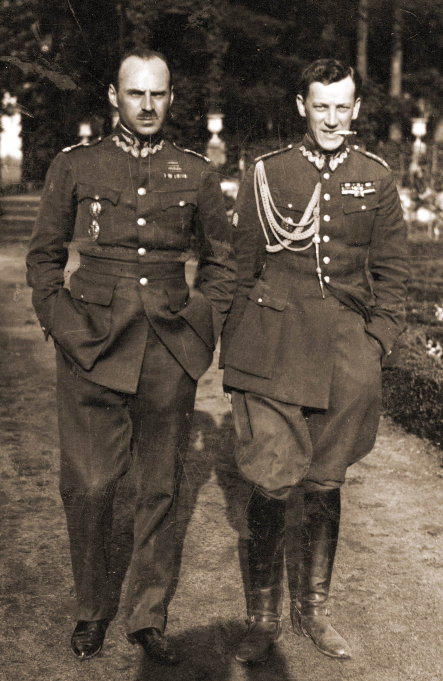 Polish Generals: Władysław Anders and Gustaw Paszkiewicz 1926